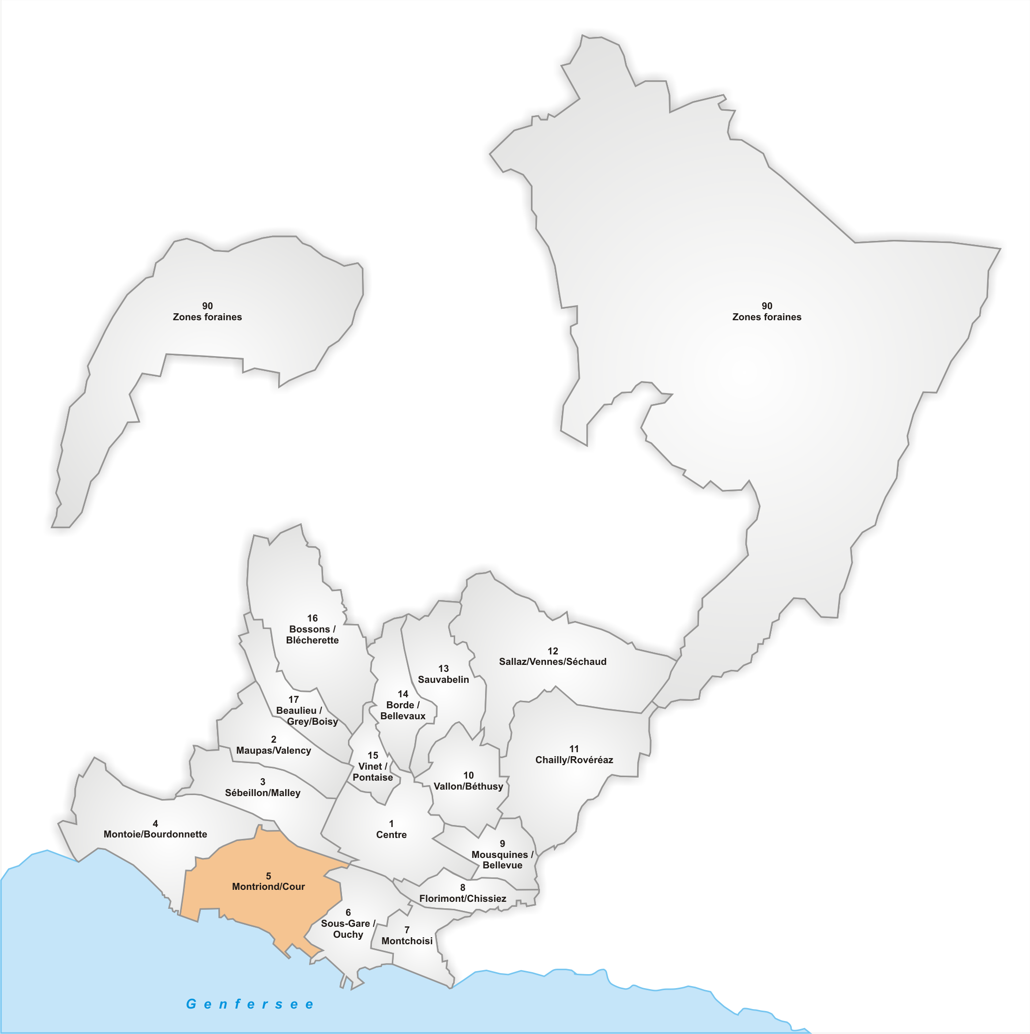 Lausanne Quarter 5